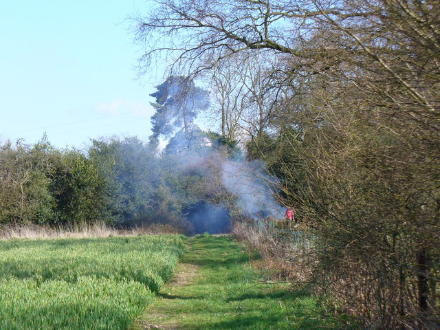 Footpath at Becksteddle Farm A back garden bonfire blowing smoke across the path and fields.